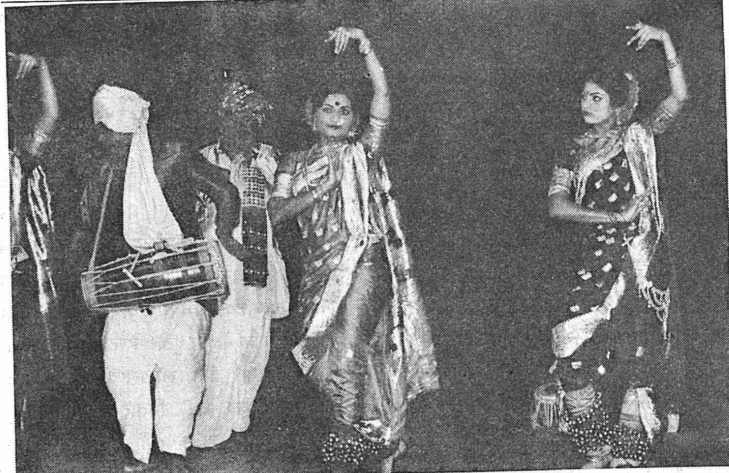 Tamasha,Konkani Vishwakosh